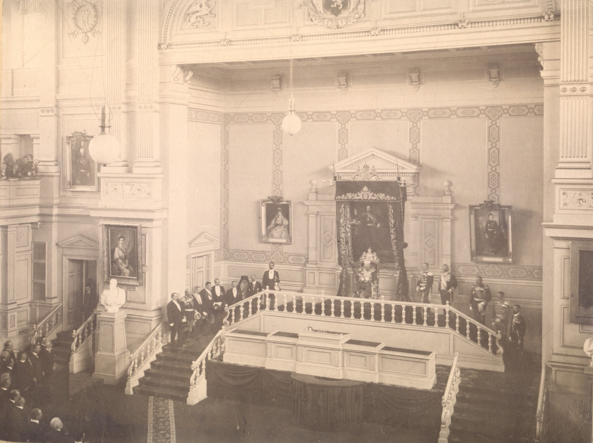 National Assembly of Bulgaria, 1908.